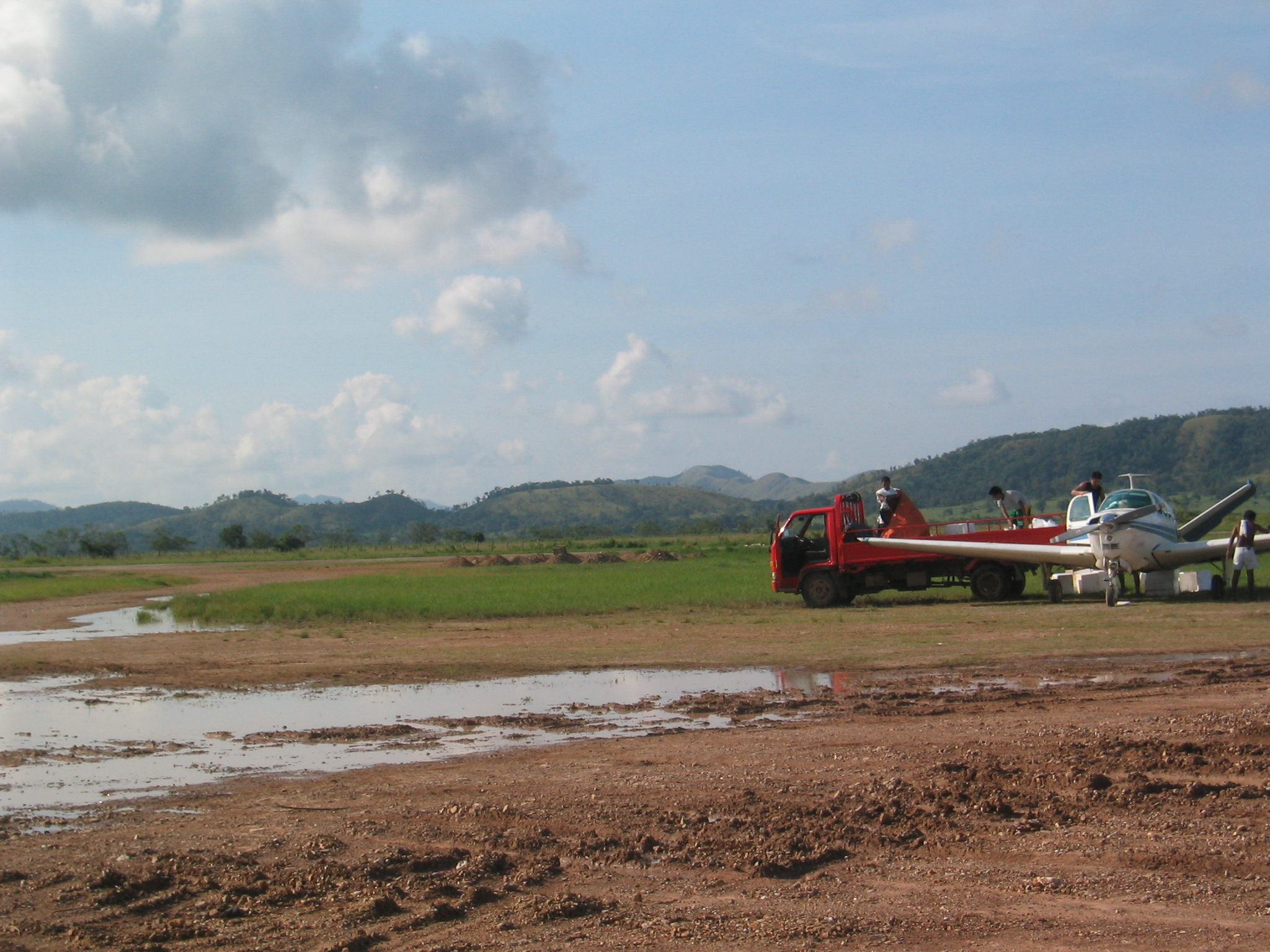 Busuanga airstrip is on the largest cattle ranch in the Philippines